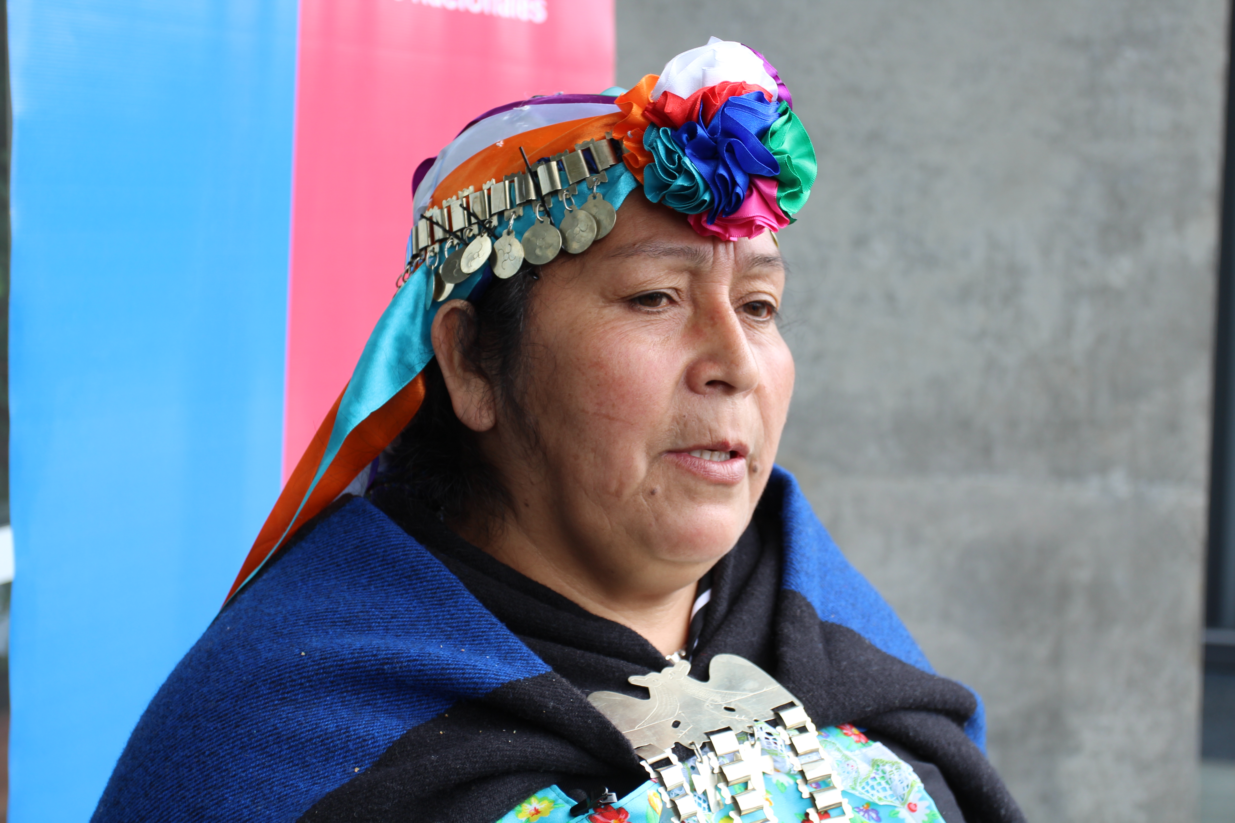 Mapuche woman.